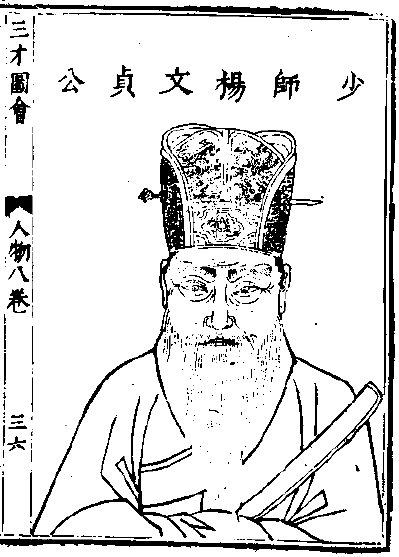 Yang Shiqi, politician of the Ming Dynasty.